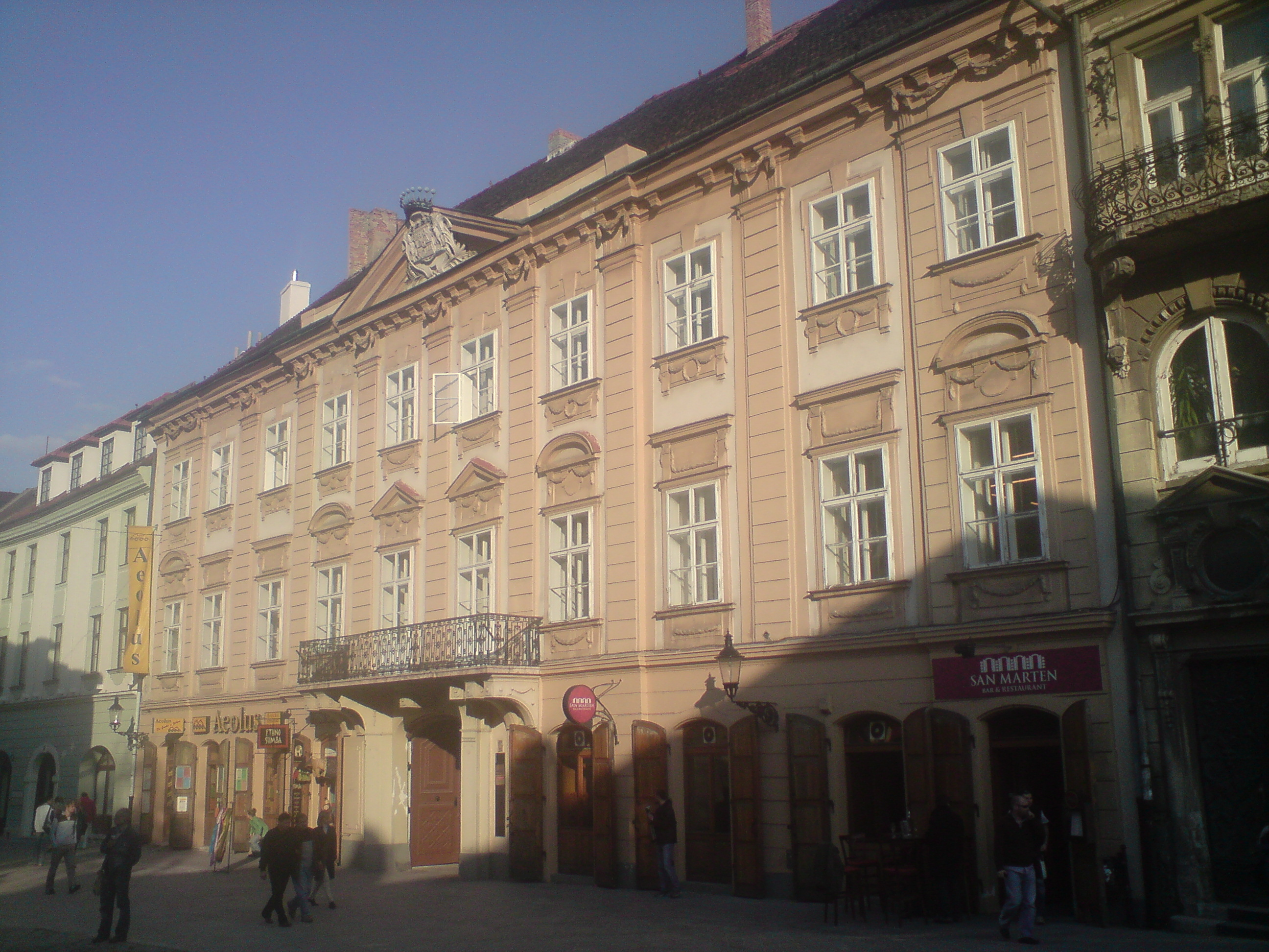 This medium shows the protected monument with the number 101-148/1 in the Slovak Republic. Csákyho palác, Panská, Bratislava